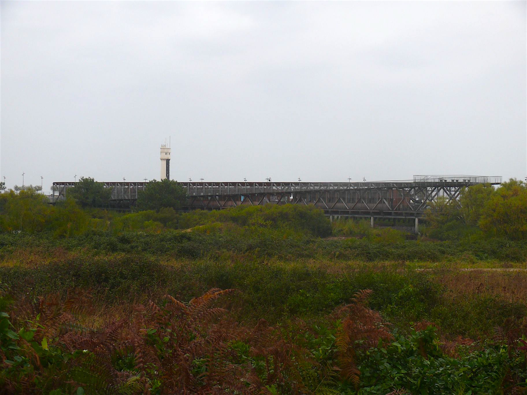 The environmental park Izadia, in Anglet (Pyrénées-Atlantiques, France)